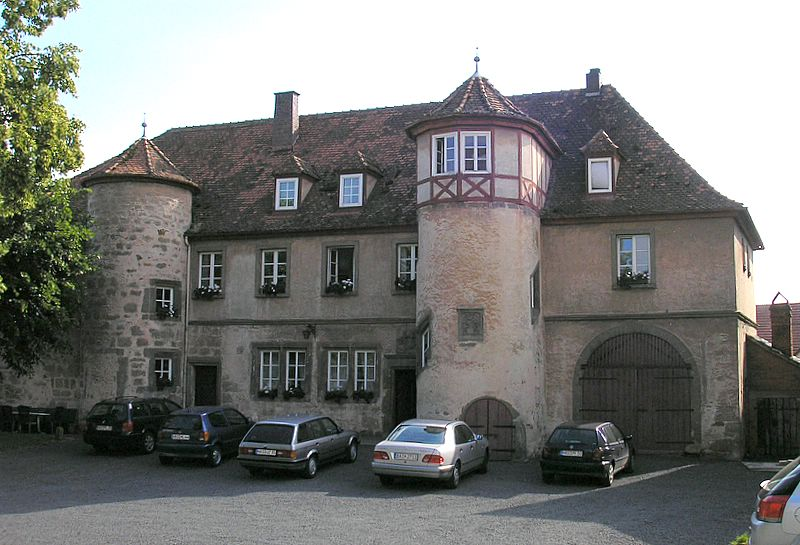 Fischbach Castle near Ebern, Lower Franconia, Germany / Total view. Own photo, June 2006.